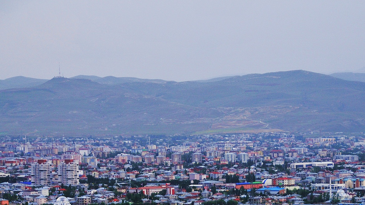 A General View of Tuşba